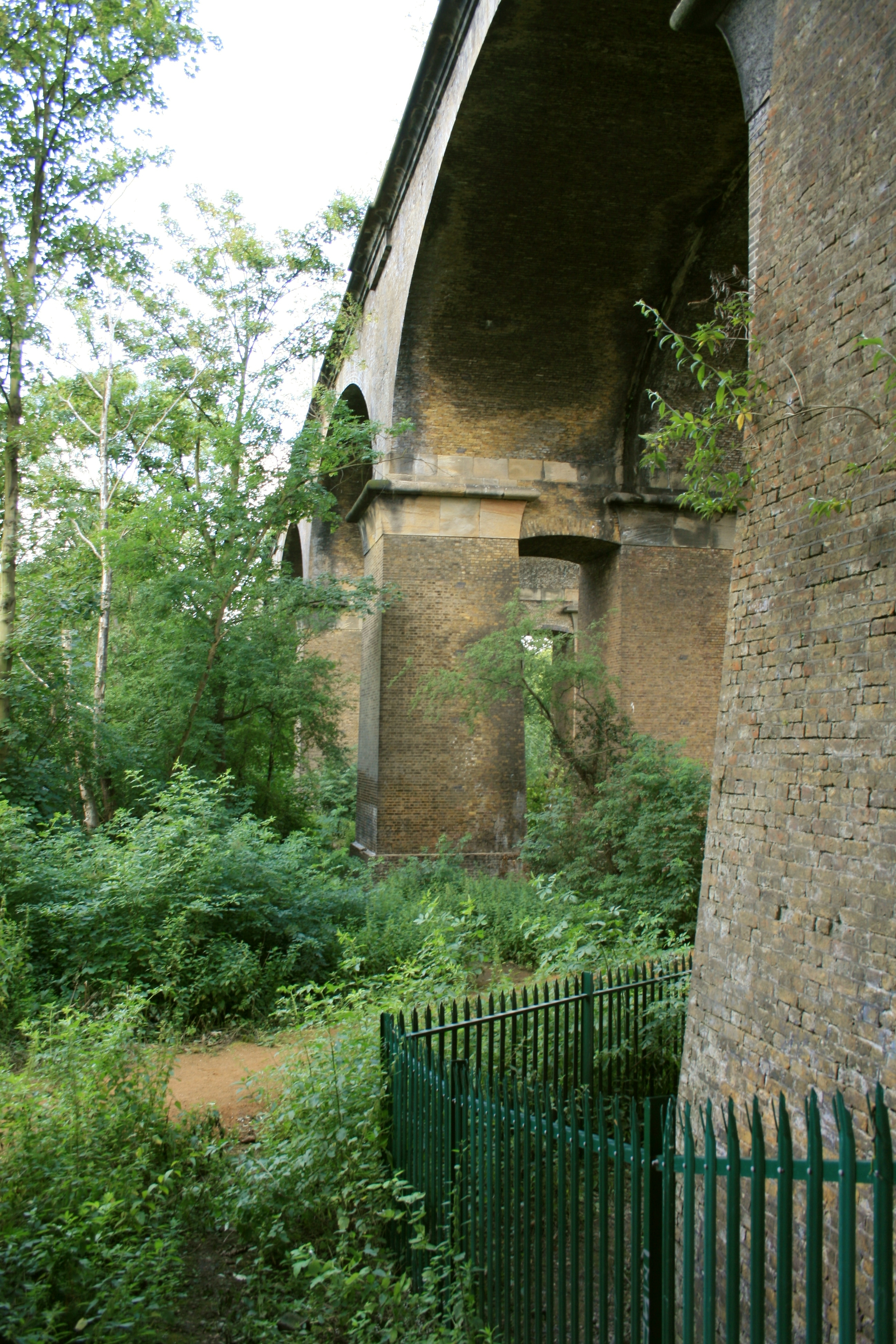 View of one of the Egyptian style piers of the Wharncliffe Viaduct in Hanwell, London W7. Shot from the embankment at the western end of viaduct and on its north side looking east.